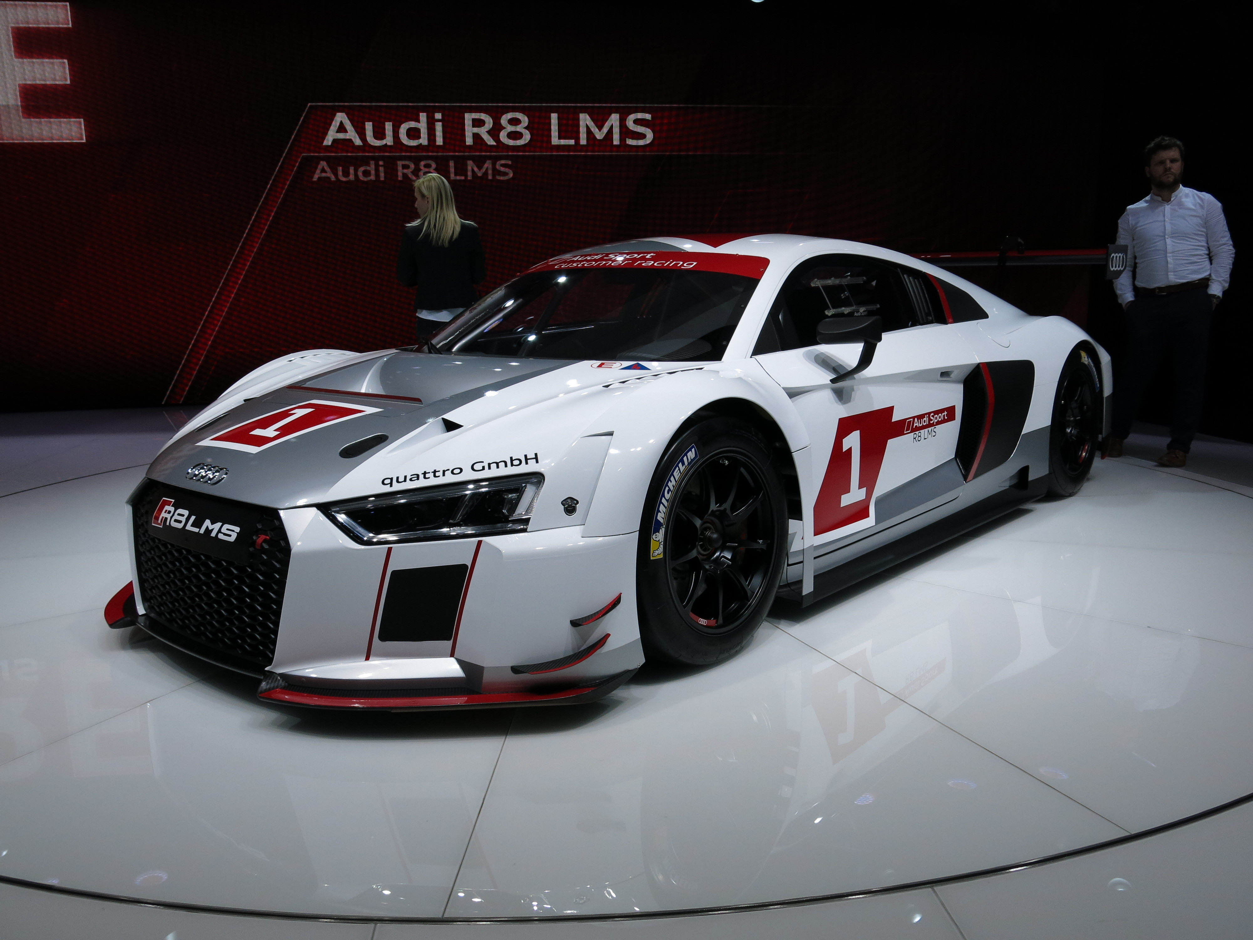 Geneva Motor Show 2015 (photo taken on the first press day)